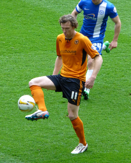 Kevin McDonald - Wolverhampton Wanderers vs Peterborough United (05/04/2014)